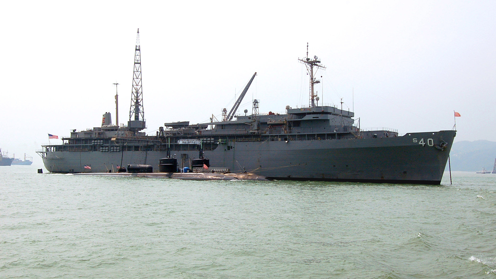 The U.S. Navy submarine tender USS Frank Cable (AS-40) tends deployed submarines USS Honolulu (SSN-718) and USS La Jolla (SSN-701) while anchored in Hong Kong Harbor, 7 October 2010. The tender's presence made it possible for the two submarines to make a port visit to the Asian metropolis as United States submarines cannot moor to the mainland. This was one of the last Western Pacific port visits Honolulu made before returning to Bremerton, Washington (USA), for decommissioning.